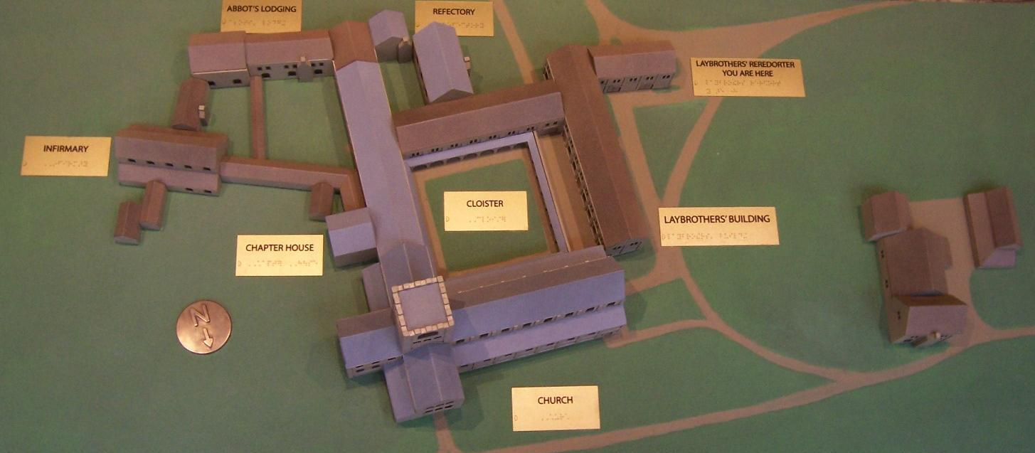 model of Kirkstall Abbey in Leeds, Yorkshire (England), before the Dissolution of the Monasteries (1539) own work; photo taken on 30 April 2006